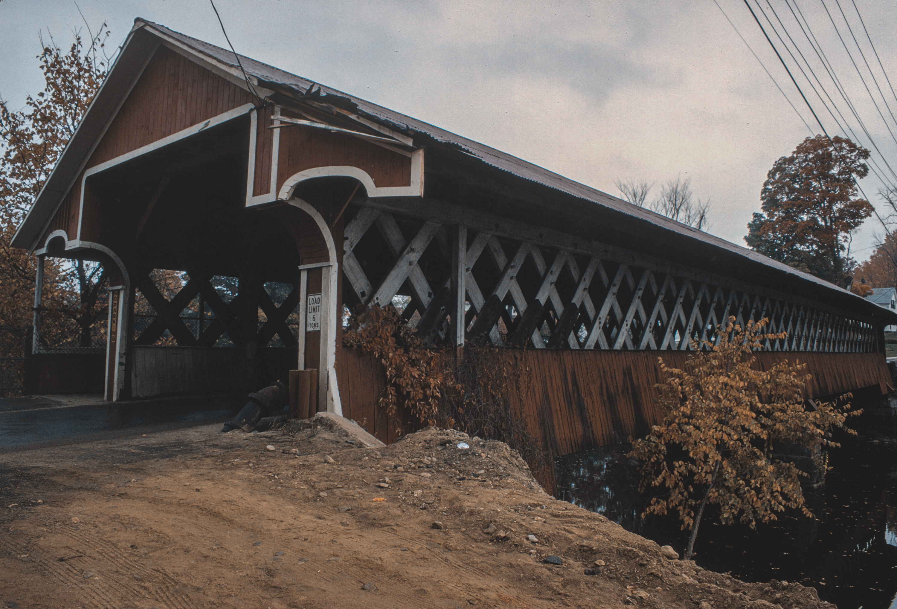 The West Swanzey Covered Bridge, Thompson Bridge, number 5, before restoration, 1966.